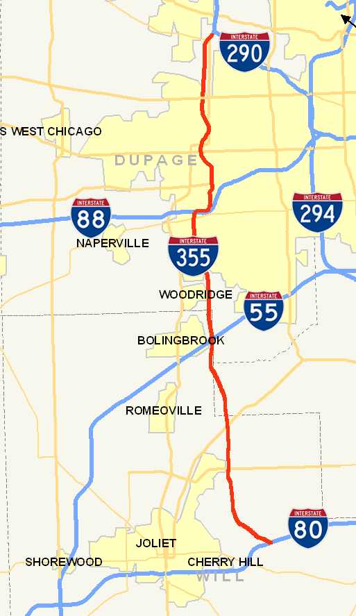 Interstate 355 map